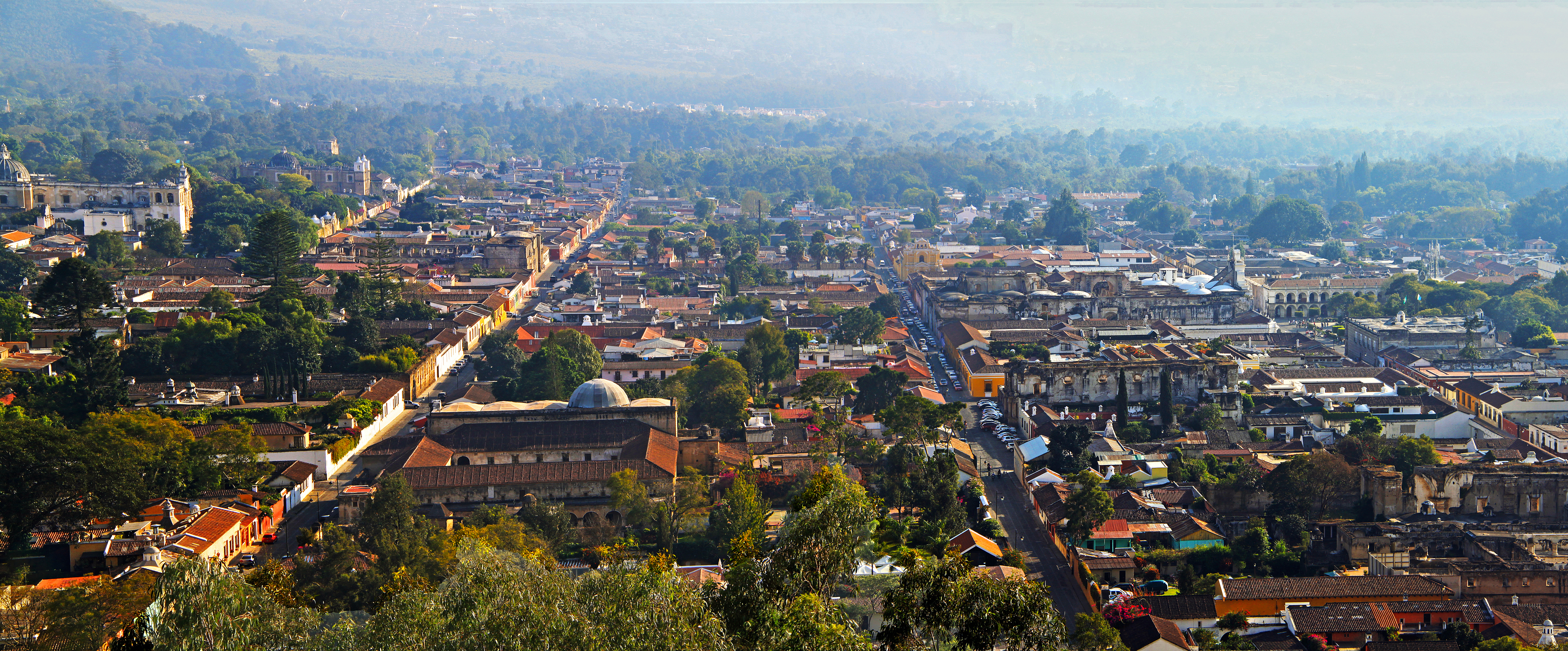 antigua guatemala panorama day 2010